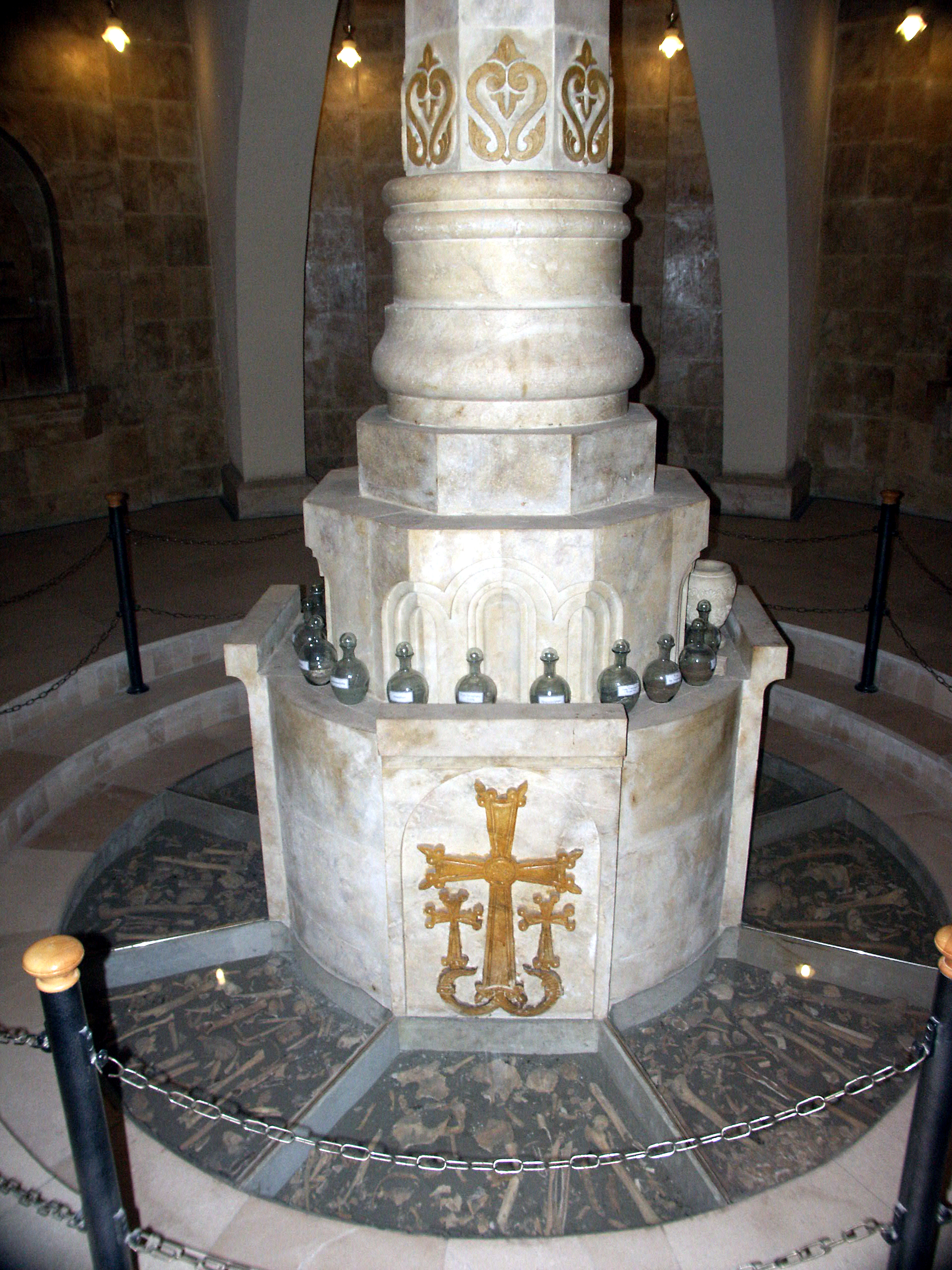 Bones of Armenian martyrs at the Genocide memorial in Der Zor